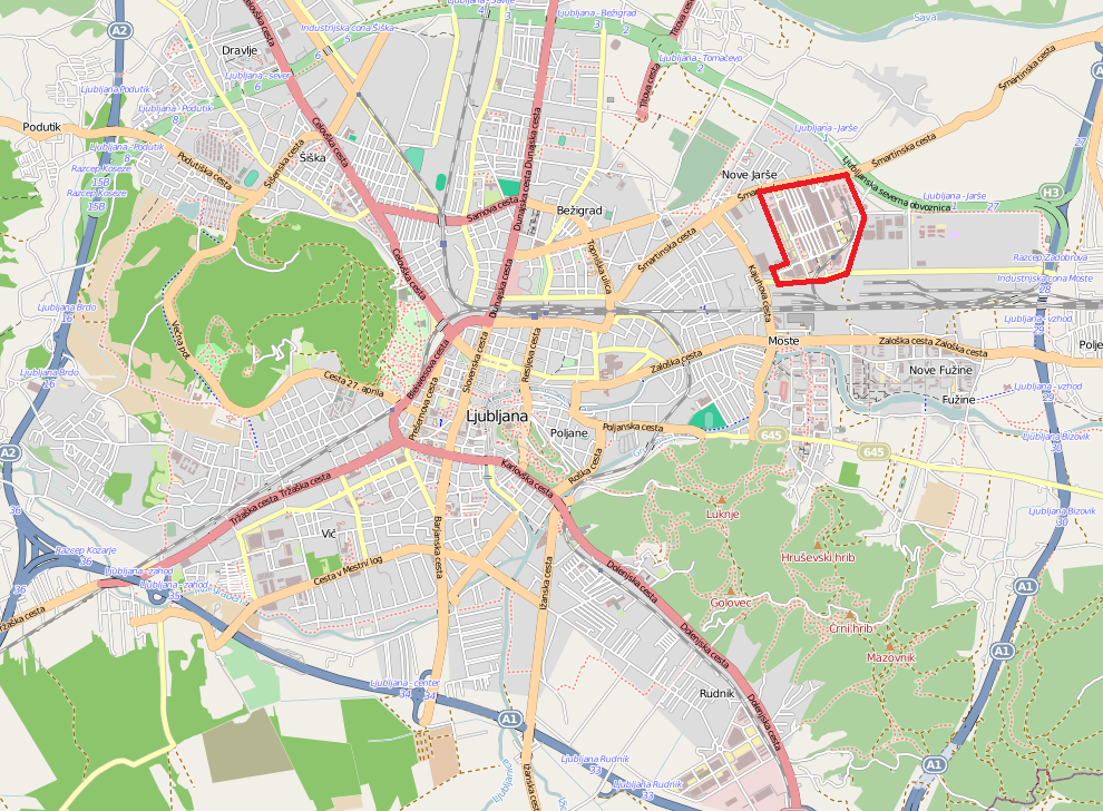 OpenStreetMap map of Ljubljana, capital city of Slovenia, with its biggest shopping center "BTC City" hightlighted